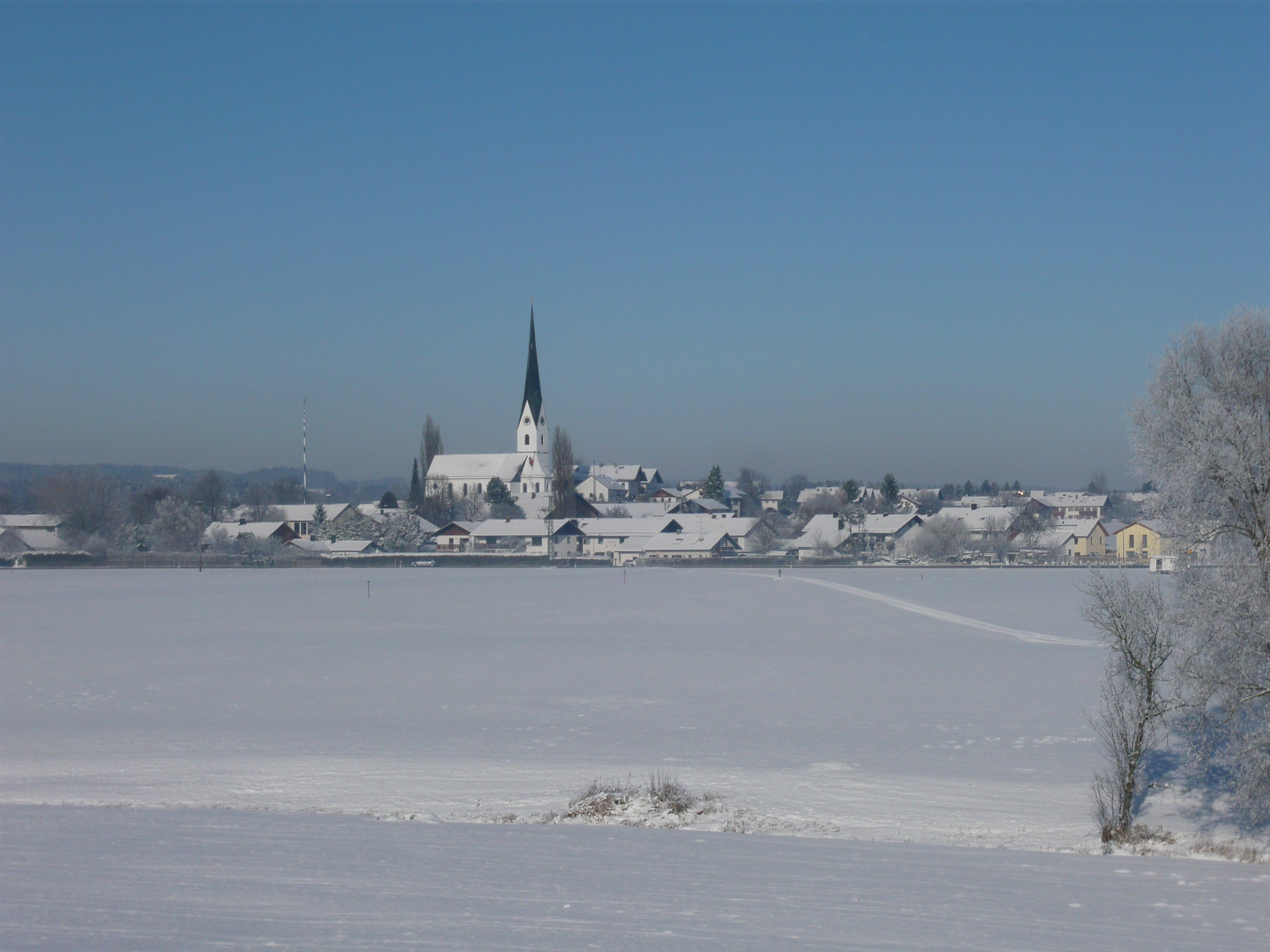 Winter view of Emmering (county Ebersberg, Upper Bavaria) in Germany